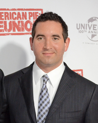 Hayden Schlossberg American Reunion Premiere In Melbourne: Australia Loves Latest Pie Flick Earlier in the week 'American Reunion' enjoyed its Australian premiere in Sin City Sydney - outside the famous Harry's Cafe de Wheels to be precise, and tonight they held their Melbourne Premiere at Hoyts Melbourne Central. The cast of 'American Reunion' (better known as 'American Pie') walked the red carpet to help promote the Australian release of the latest instalment of their movie. Some of the Pie cast has been "down under" before. Pie actress Tara Reid has experienced Australia before and got to know Australian advertising industry legend John Singleton quite well a few years ago thanks to Singo's Magic Millions racing carnival on Australia's Gold Coast. 'Pie' stars including Jason Biggs, Seann William Scott, Tara Reid, Mena Suvari, Chris Klein and Eugene Levy did the red carpet playing to a large media pack. 'American Reunion' has been described by a number of media agencies and film critics as the "raunchiest" since the the original 1990s flick. Mums and dads. Public thank you to the great folks at Universal Pictures who were so helpful. We look forward to our next bit of pie, be it Australian or Americans - whatever comes first. The tag line is 'Save the best piece for last', and we are tending to agree. Thumbs up. Storyline... Over a decade has passed and the gang return to East Great Falls, Michigan, for the weekend. They will discover how their lives have developed as they gather for their high school reunion. How has life treated Michelle, Jim, Heather, Oz, Kevin, Vicky, Finch, Stiffler, and Stiffler's mom? In the summer of 1999, it was four boys on a quest to lose their virginity. Now Kara is a cute high school senior looking for the perfect guy to lose her virginity to. Websites American Reunion official website Universal Pictures NBC Universal Hoyts Music News Australia